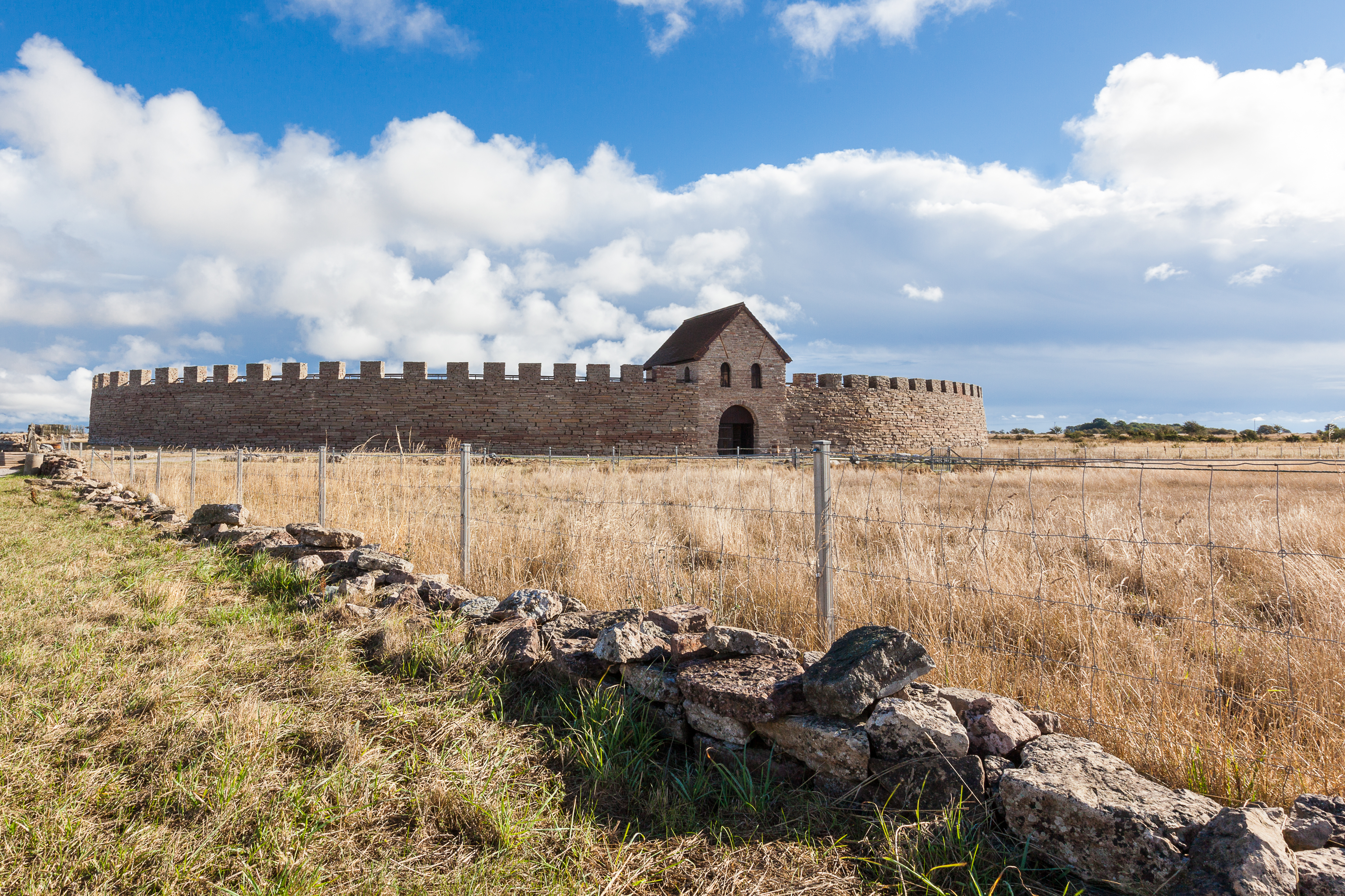 Eketorps borg (Gräsgård 45:1) Road to the Eketorps borg